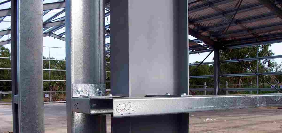 Bill Bradley, aka builderbll, billbeee My own work Feel free to use the work without removing my signature. You can contact me at my website for higher definition images.My site.